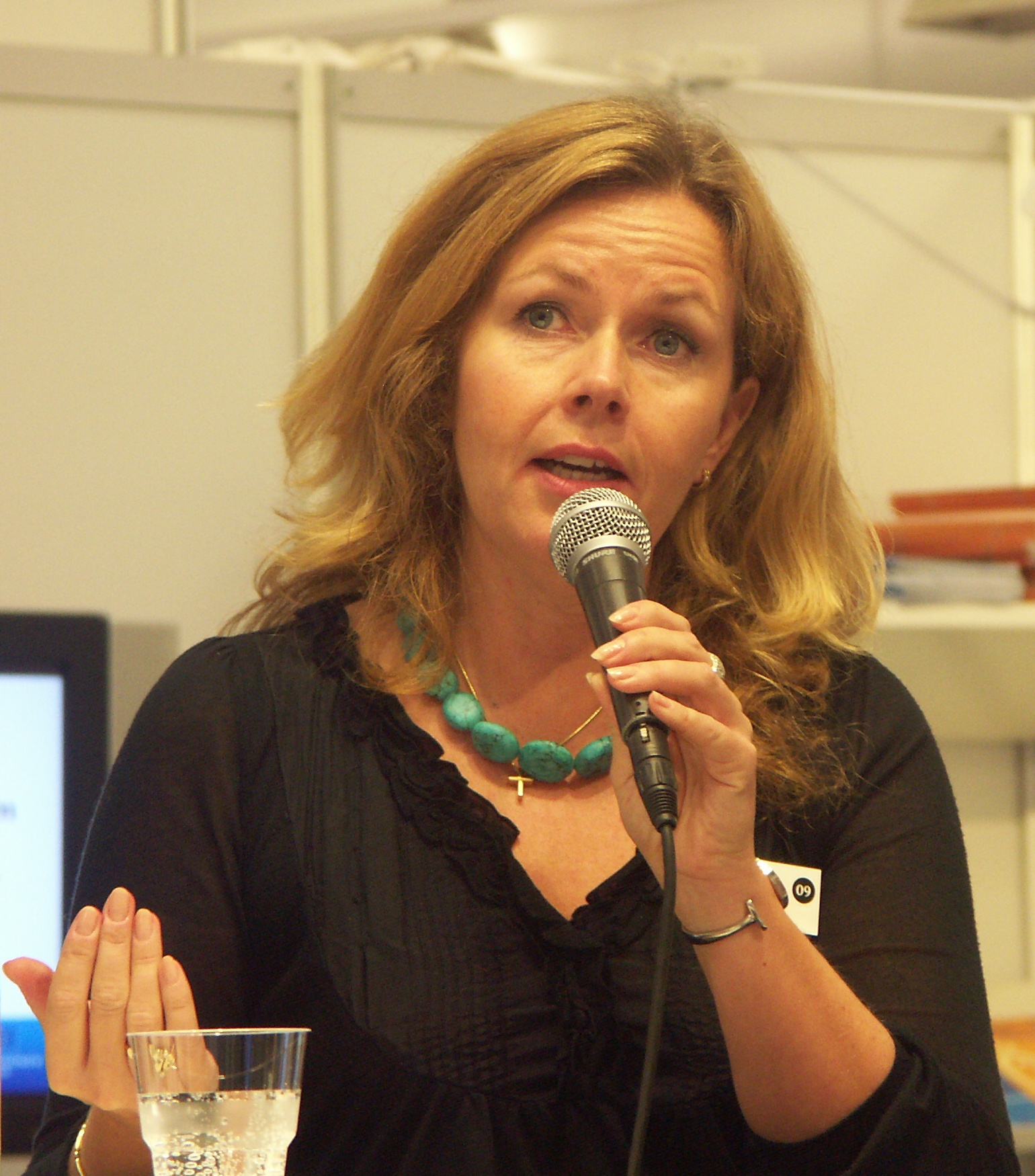 Swedish politician Cecilia Wikström.